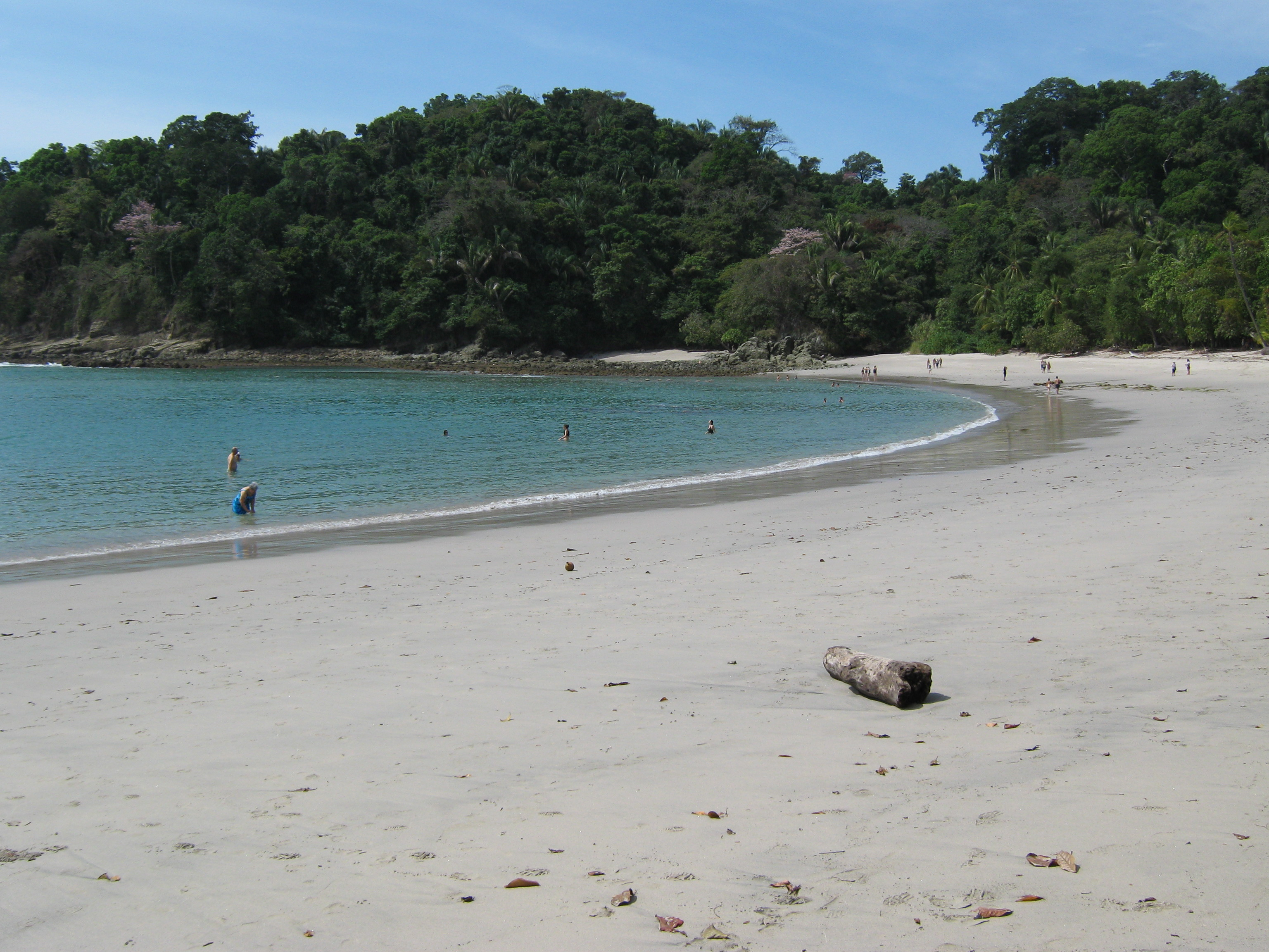 Manuel Antonio National Park, Costa Rica